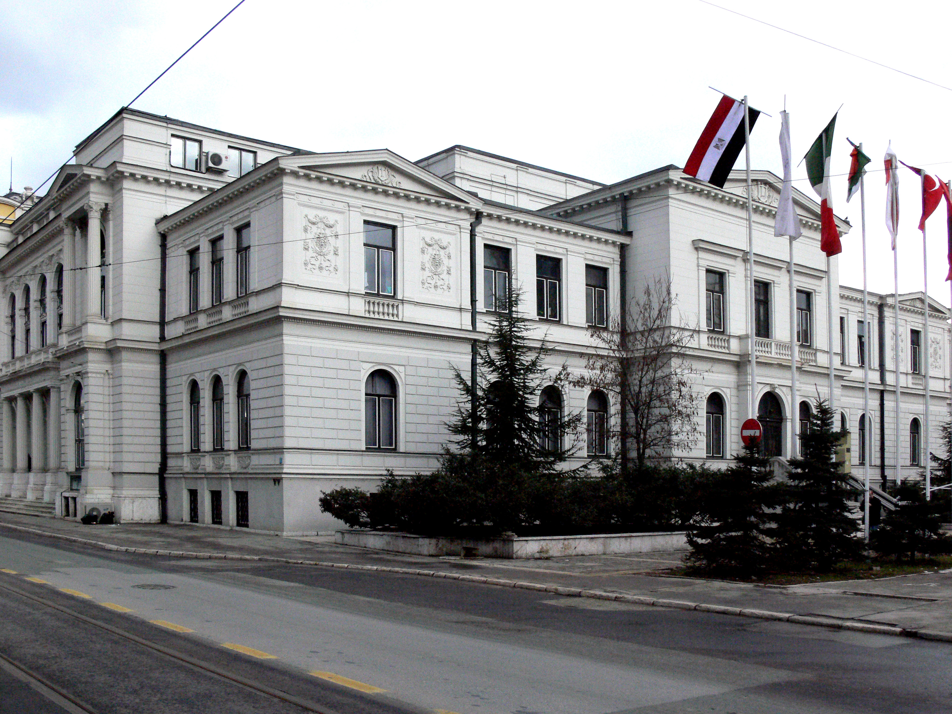 The theater in Sarajevo.